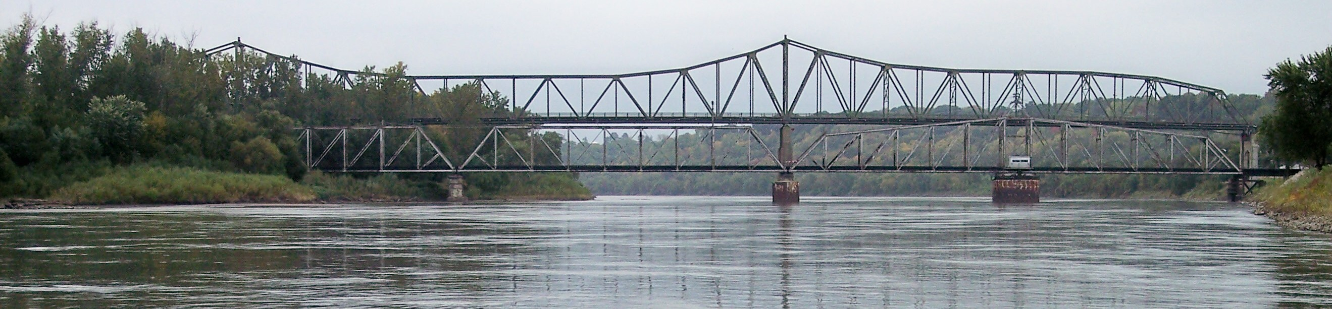 The Amelia Earhart Bridge (the taller bridge, in background) over the Missouri River between Atchison, Kansas and Buchanan County, Missouri. The lower bridge in foreground is a rail bridge.